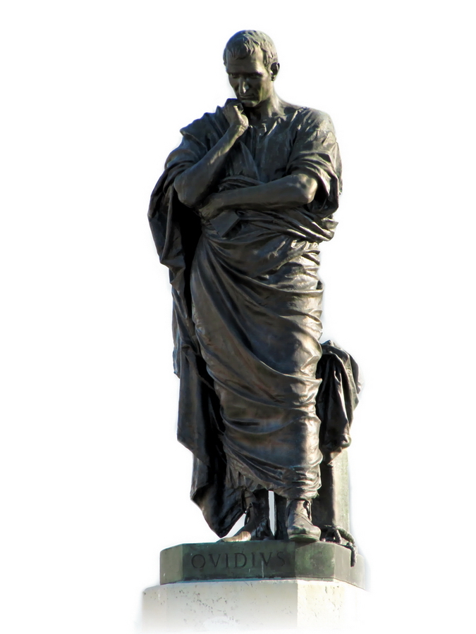 Ovid's monument of Constanța, by Ettore Ferrari